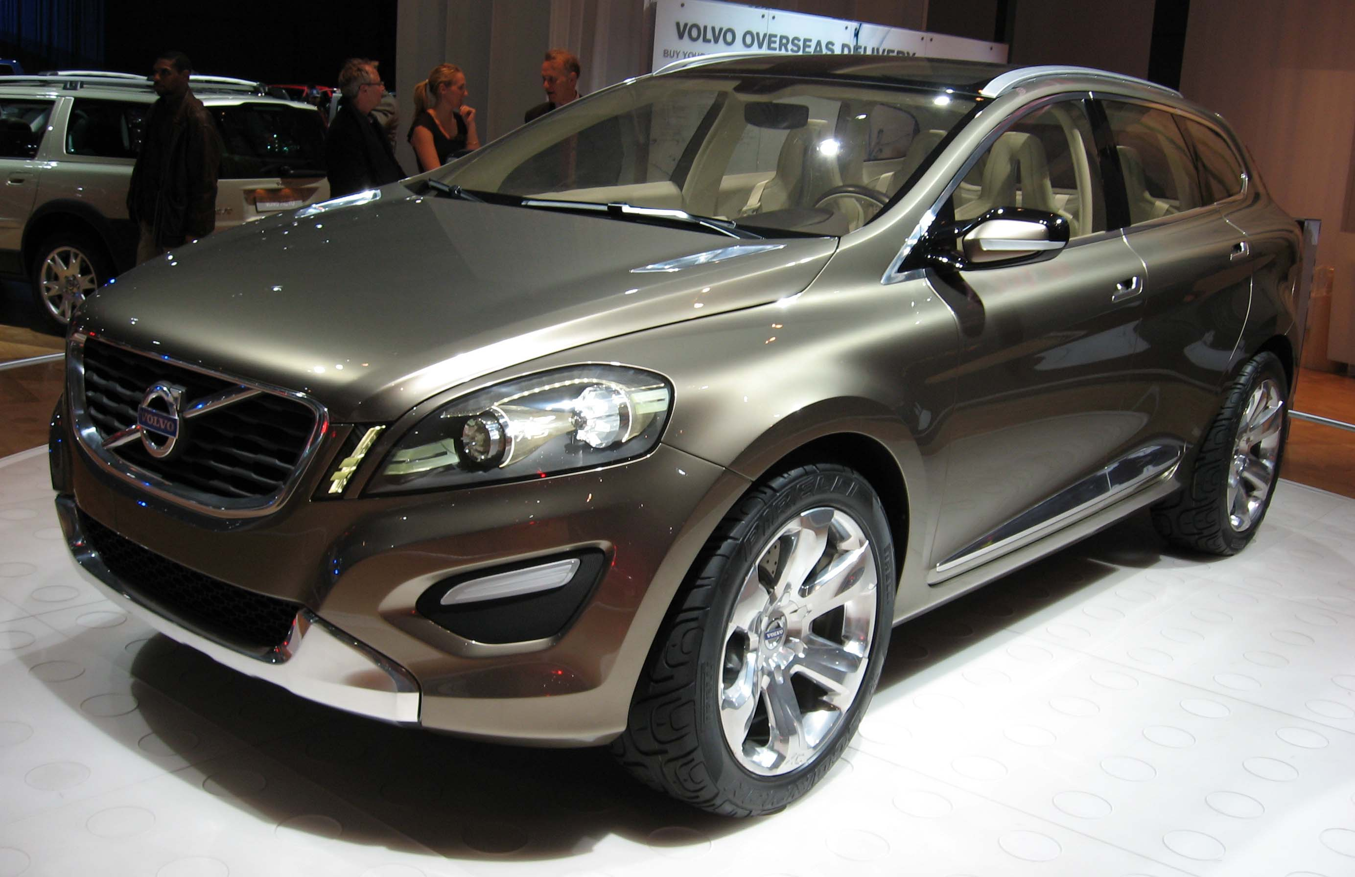 Volvo XC60 photographed at the Washington Auto Show.